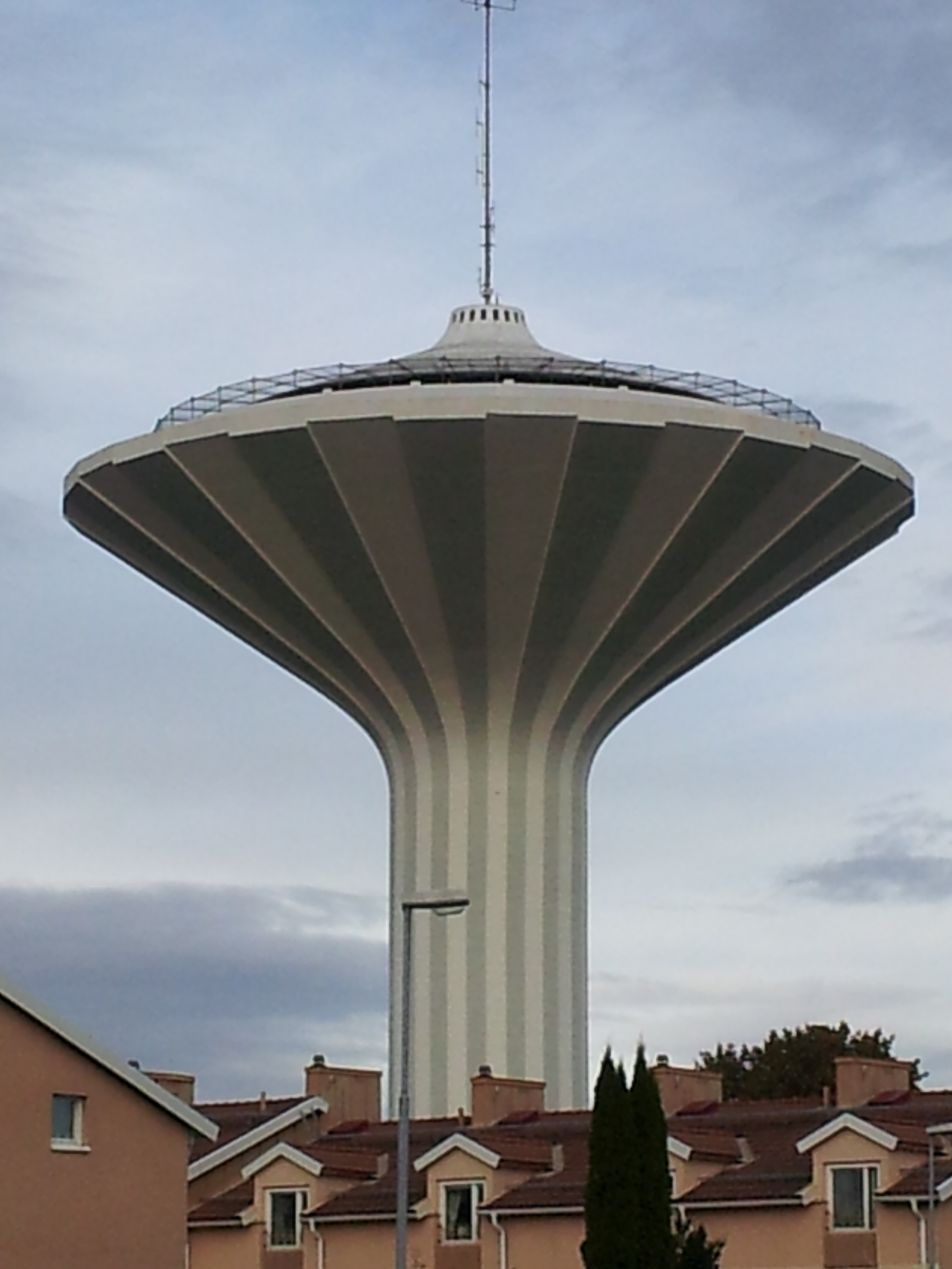 The fencing put up in 2012, which is to protect from suicide jumpers. Water tower Svampen, Örebro, Sweden.